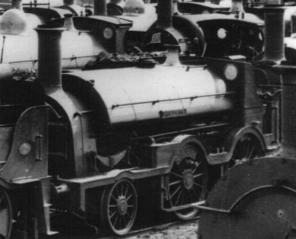 Great Western Railway Hawthorn Class 2-4-0T Roberts at Swindon in 1892 awaiting dismantling.